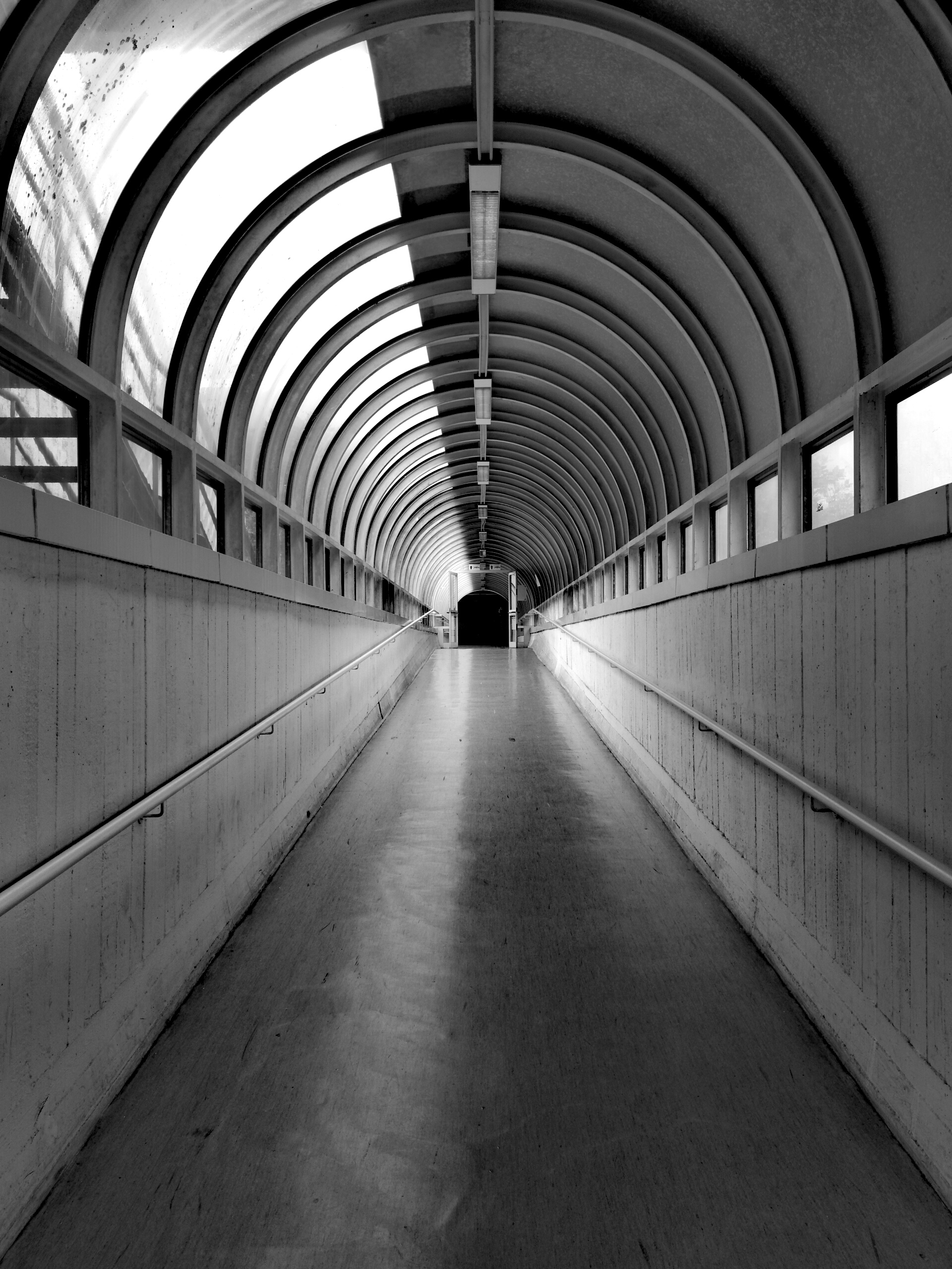 Tunnel connecting the buildings of the "Common Centers" in the University of Naples "Federico II", Monte Sant'Angelo, Naples.